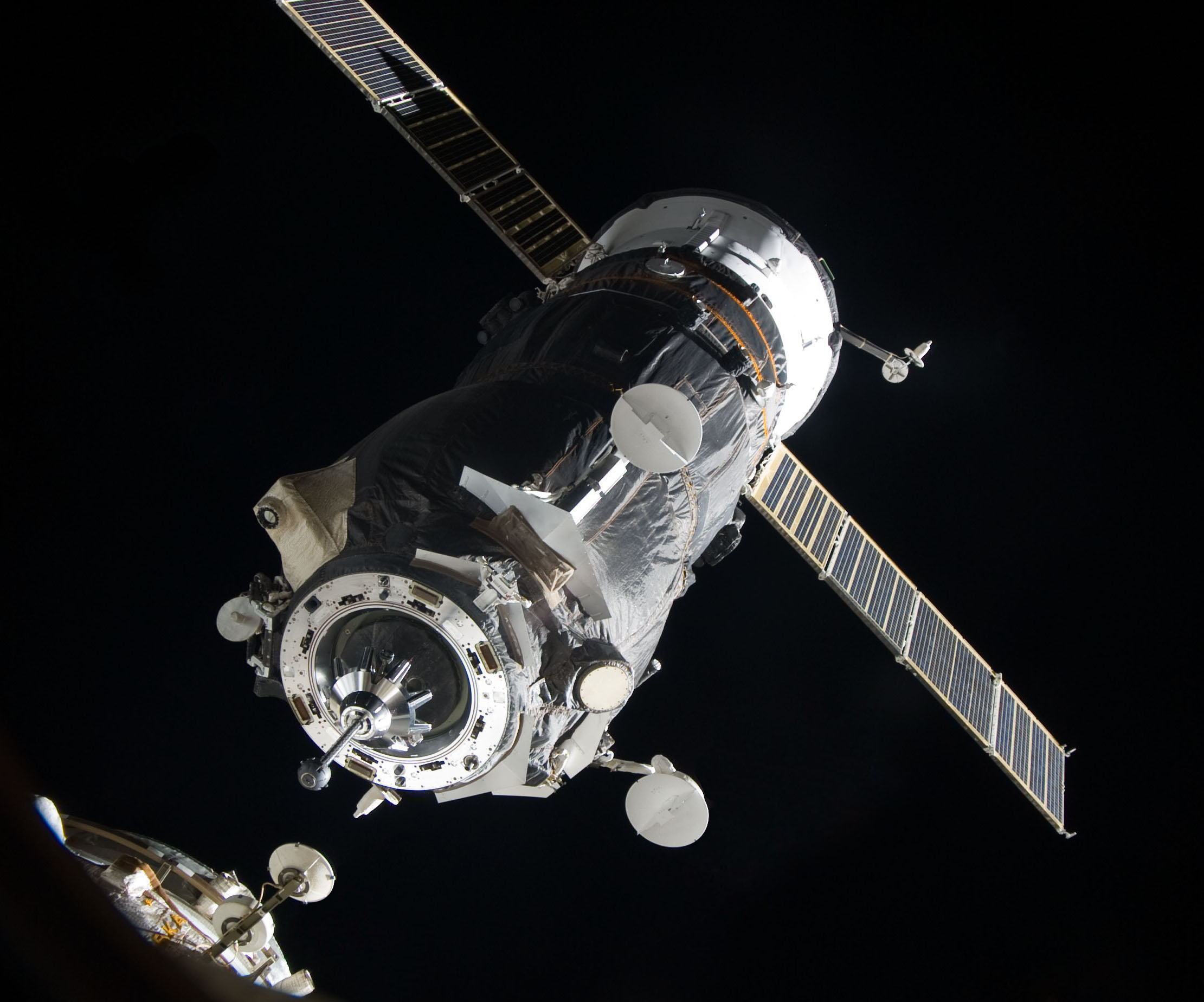 ISS023-E-030584 (1 May 2010) --- An unpiloted ISS Progress resupply vehicle approaches the International Space Station, bringing 2.6 tons of food, fuel, oxygen, propellant and supplies for the Expedition 23 crew members aboard the station. Progress 37 docked to the Pirs Docking Compartment at 2:30 p.m. (EDT) on May 1, 2010, after a three-day flight from the Baikonur Cosmodrome in Kazakhstan. The docking was conducted by Russian cosmonaut Oleg Kotov, commander, in manual control through the TORU (telerobotically operated) rendezvous system due to a jet failure on the Progress that forced a shutdown of the Kurs automated rendezvous system.